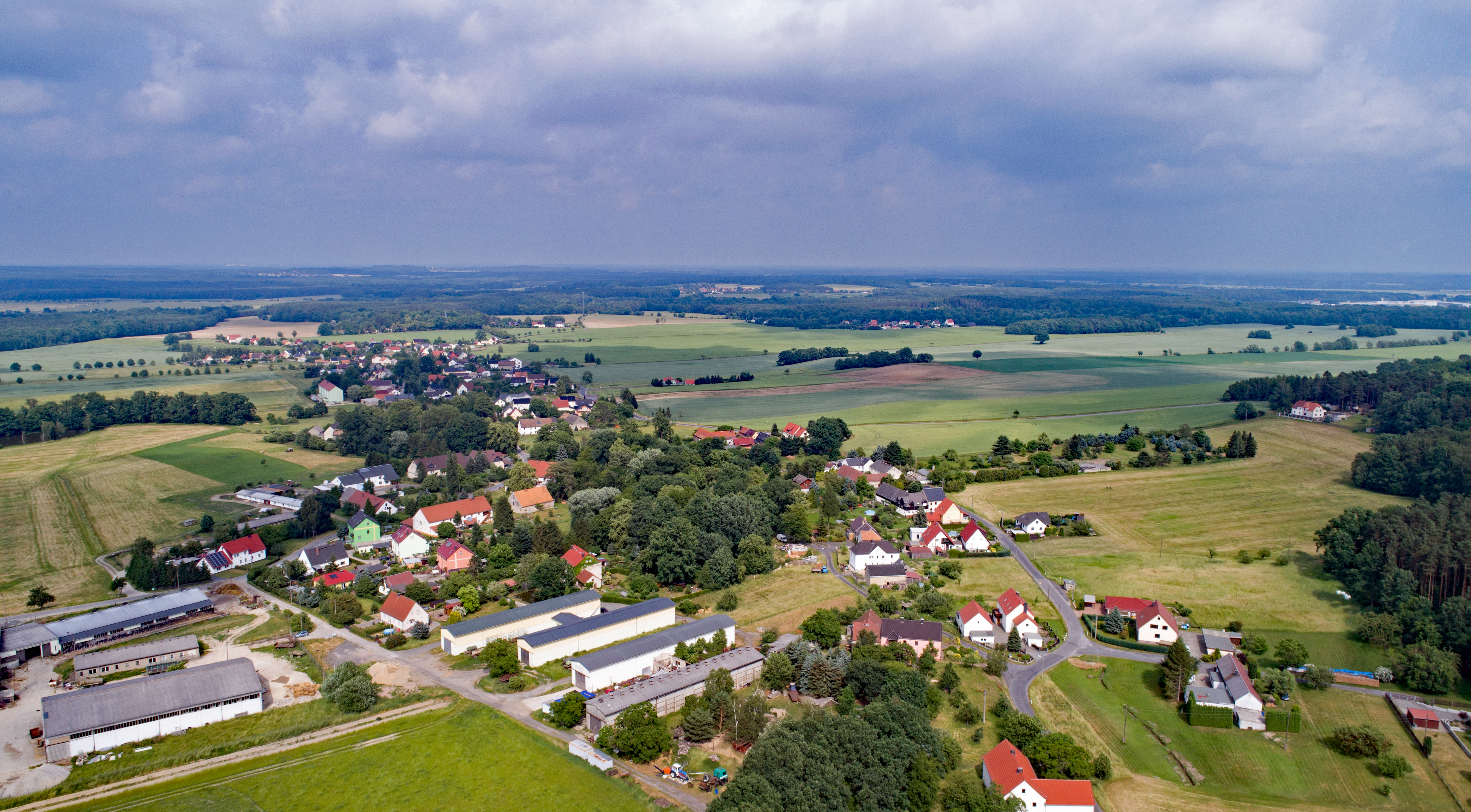 Cunnersdorf (Schönteichen, Saxony, Germany)